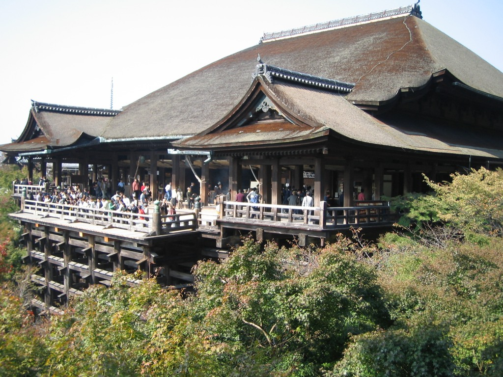 清水の舞台 / The main hall of Kiyomizu-dera